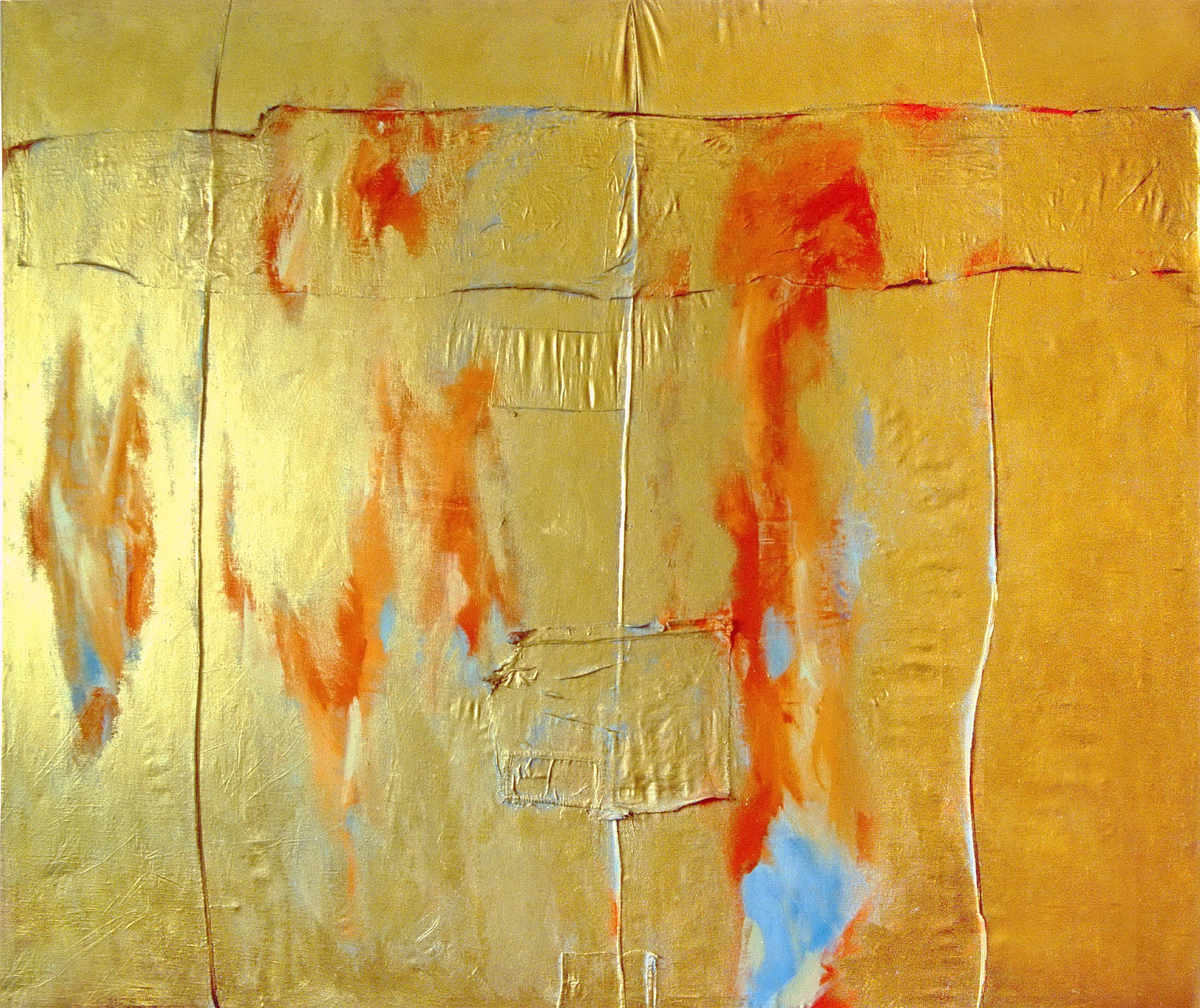 "The Bible - Solomon - Song of Songs 8, 6-7". Acrylic, rich pale gold and cloth on linen, 66.9 x 76.8 inches, 1997, by Christiaan Tonnis. "Set me as a seal upon thy heart, as a seal upon thine arm; for love is strong as death, jealousy is cruel as the grave; the flashes thereof are flashes of fire, a very flame of the LORD. Many waters cannot quench love, neither can the floods drown it; if a man would give all the substance of his house for love, he would utterly be contemned." Song of Songs 8, 6-7